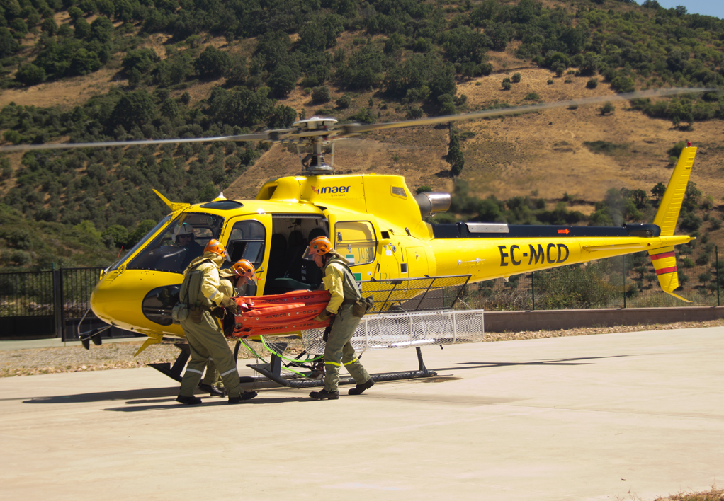 Brigadas colocando el Bambi Bucket en un AS350.